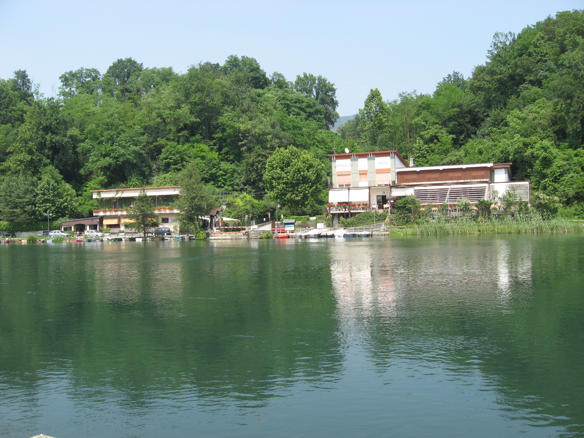 The Bergamo bank. Traghetto di Leonardo in Imbersago, Italy